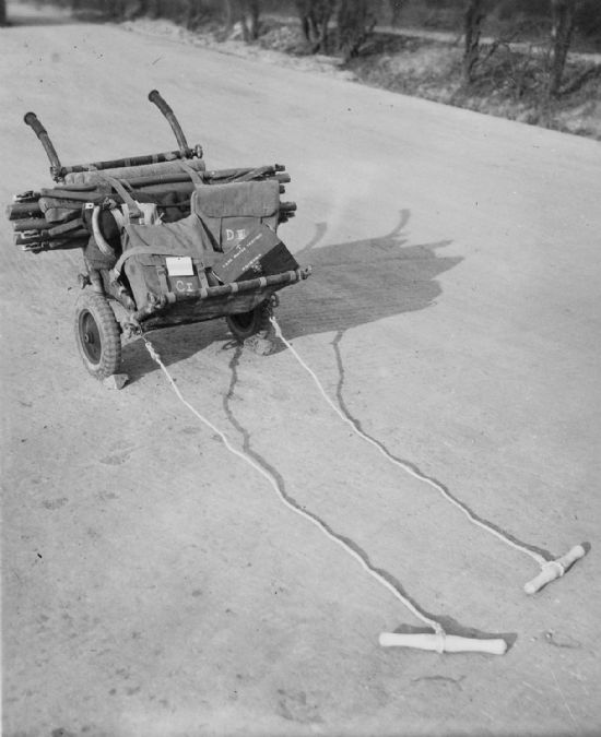 16th (Parachute) Field Ambulance-image of airborne forces medical trolly